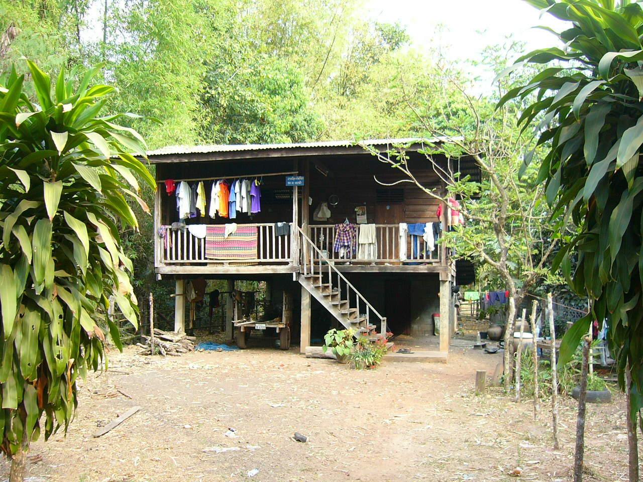 Residential house for living in Nakoon Yai, Province Nakhon Phanom, Thailand